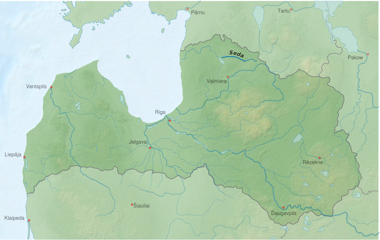 Map of river Seda in Latvia based on relief-location maps by users: NNW, Виктор В, Alexrk2, Chumwa, Karlis